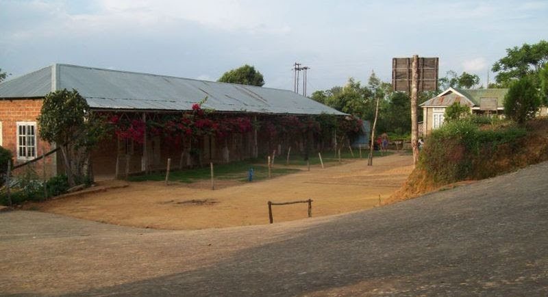 Landscape view of the school from South West